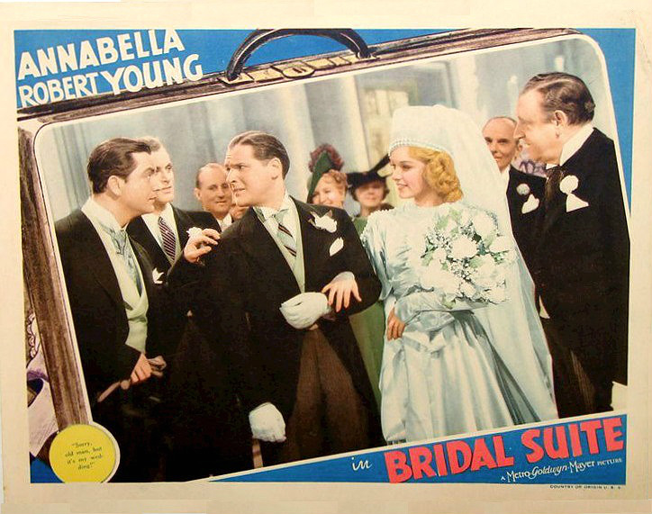 Lobby card for the American film Bridal Suite (1939). The item has no copyright markings on it as can be seen in the links above. At bottom right is Country of Origin USA.